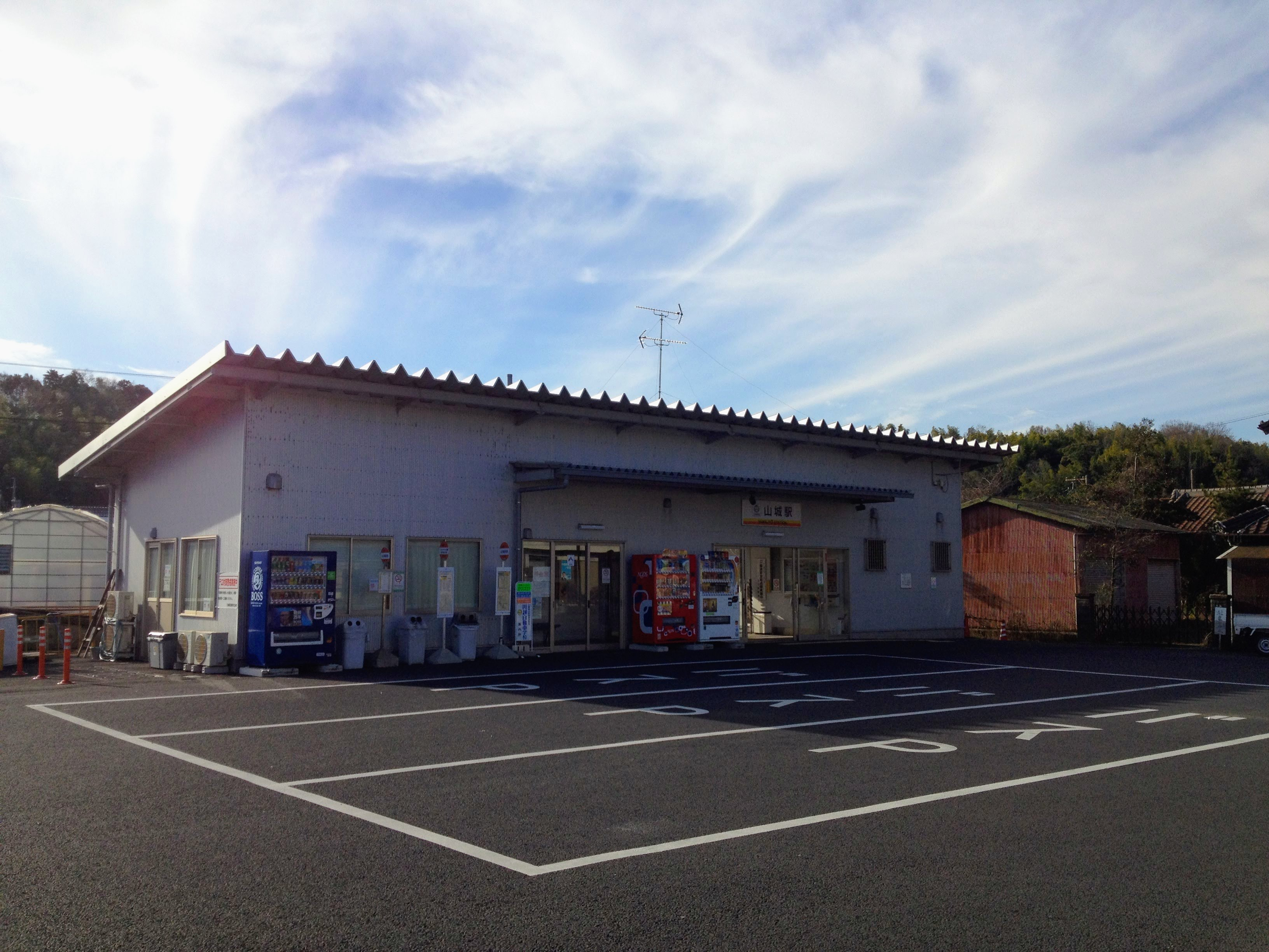 Yamajo Station in Yokkaichi, Mie Prefecture, Japan